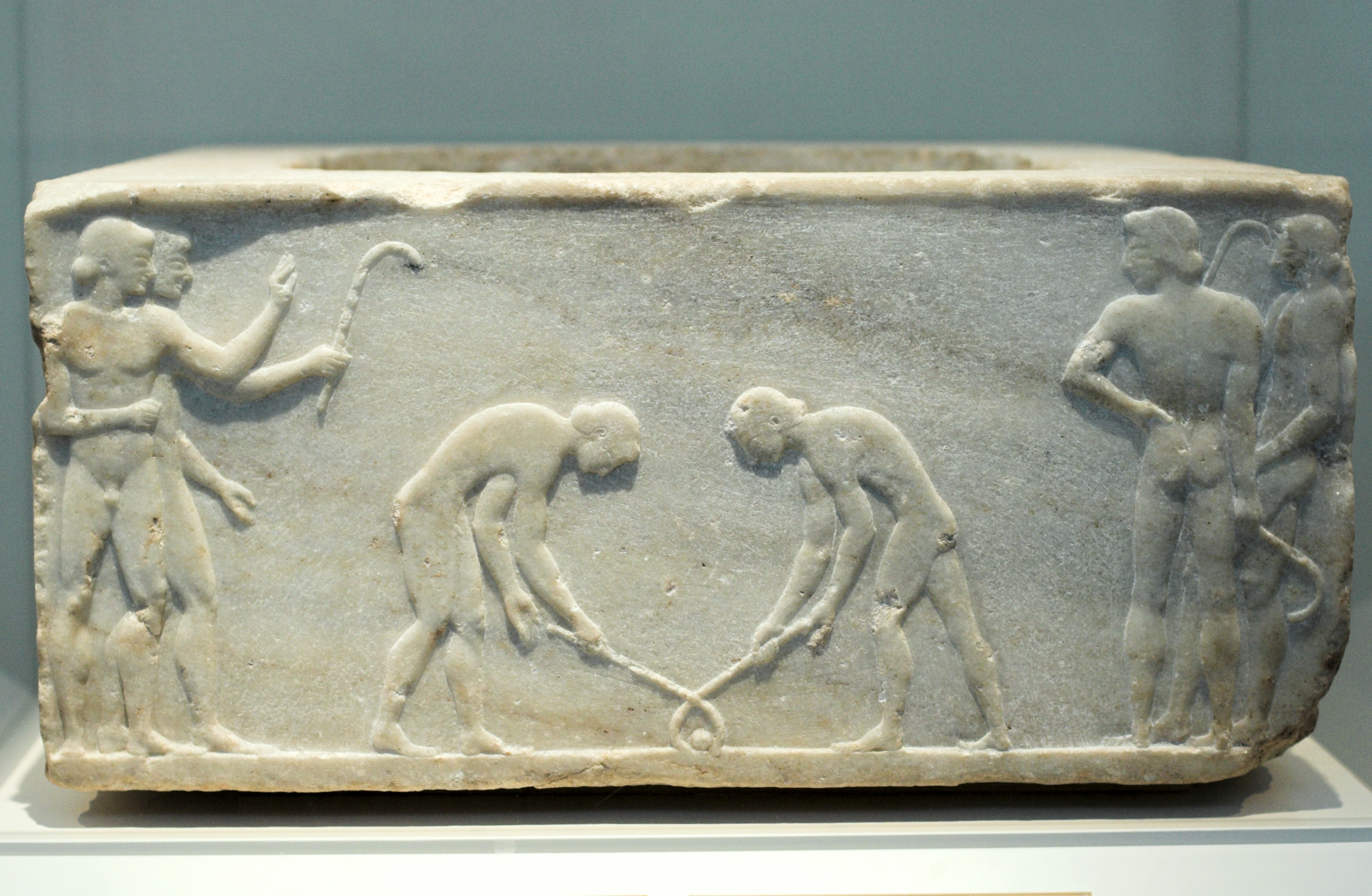 The relief on the pedestal tombstone kouros, perhaps of the grave athlete. Pentelic marble, circa 510-500 BC. Finding: Kerameikos in Athens, at Themistokleos walls. National Archaeological Museum of Athens N 3476.